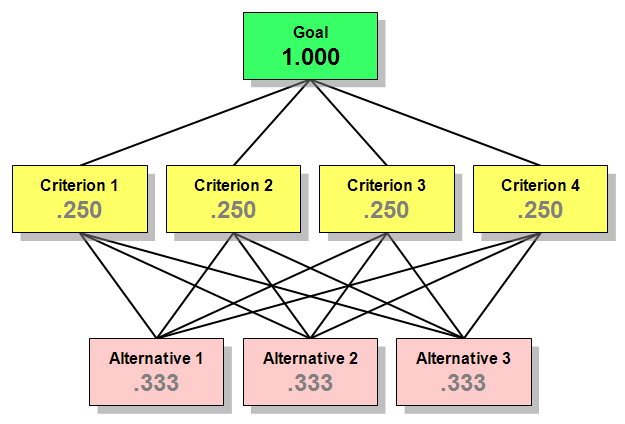 Original drawing used to illustrate the Analytic Hierarchy Process article. I release this image to the public domain.